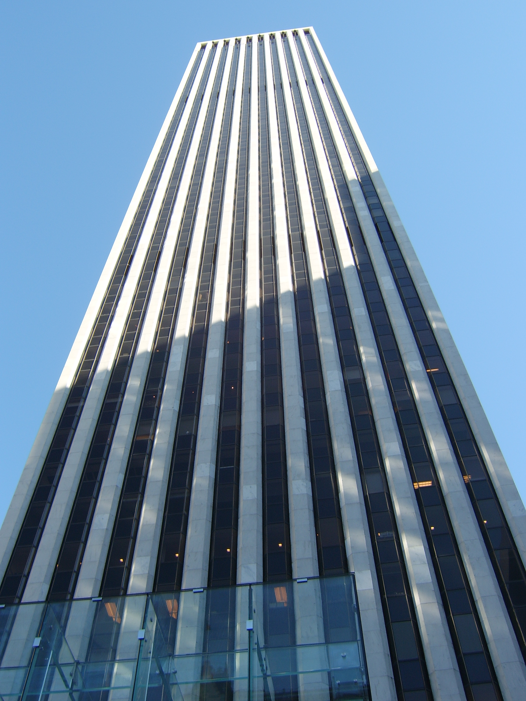 GM Building